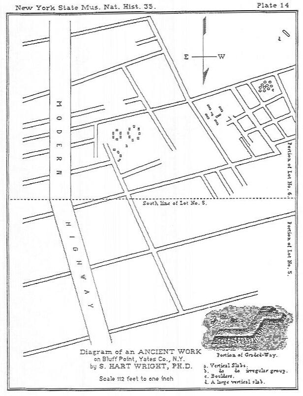 A rudimentary drawing of what the Bluff Point Stoneworks used to look like.